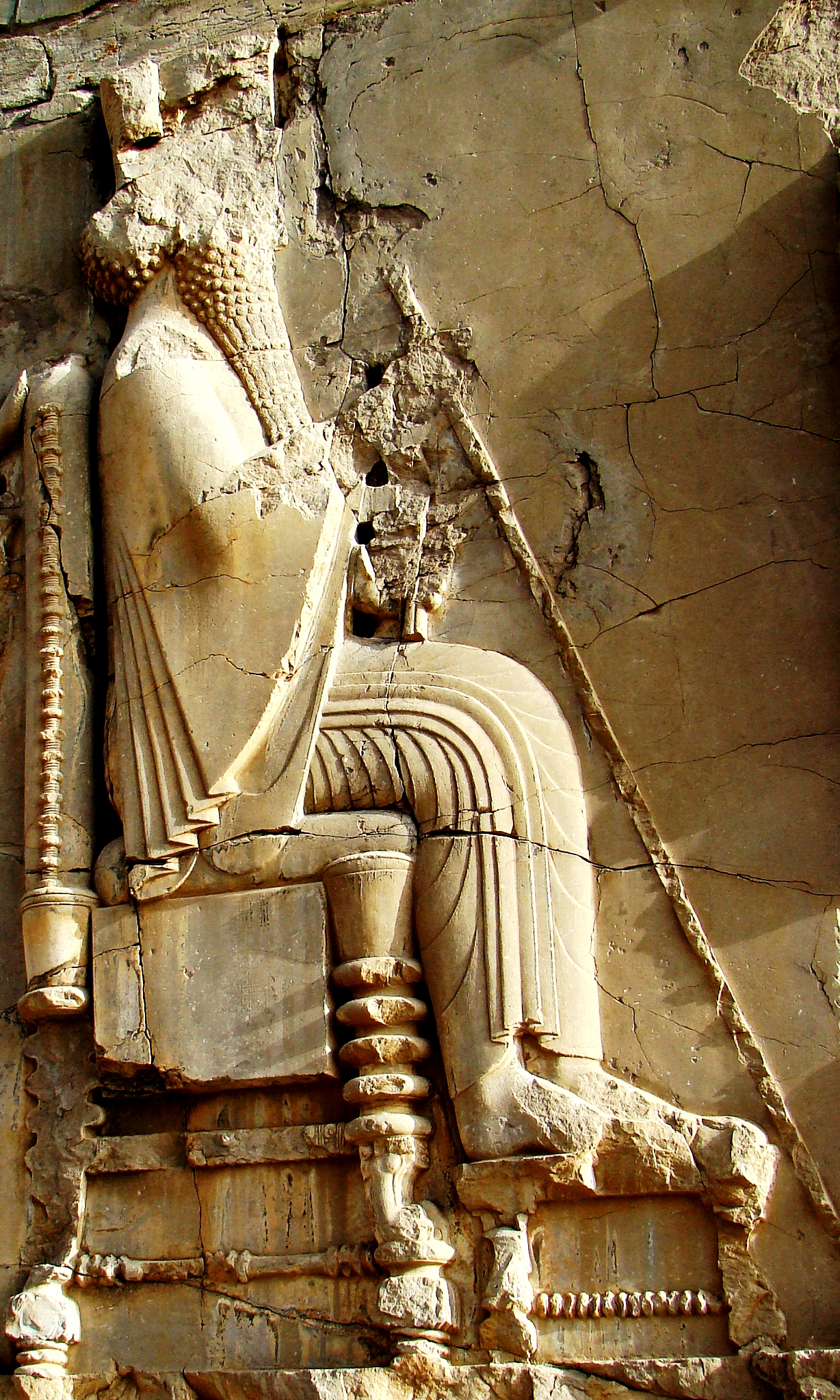 Darius I. Relief from Parsa